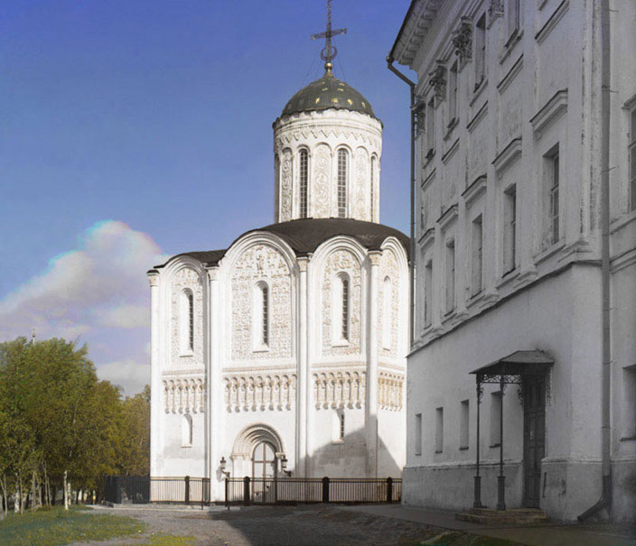 Cathedral of St. Demetrius (1194-97) in Vladimir. Color photograph by Sergei Mikhailovich Prokudin-Gorskii was taken in 1911. Full caption from The Library of Congress exhibition "The Empire Thas Was Russia":Church of St. Dmitrii. The Church of St. Dmitrii, built in the 1190s in the town of Vladimir, east of Moscow in central European Russia, illustrates the verticality common to early Russian church architecture. This church served as the model for the Cathedral of St. Nicholas of the Orthodox Church of America on Massachusetts Avenue, in Washington, D.C.